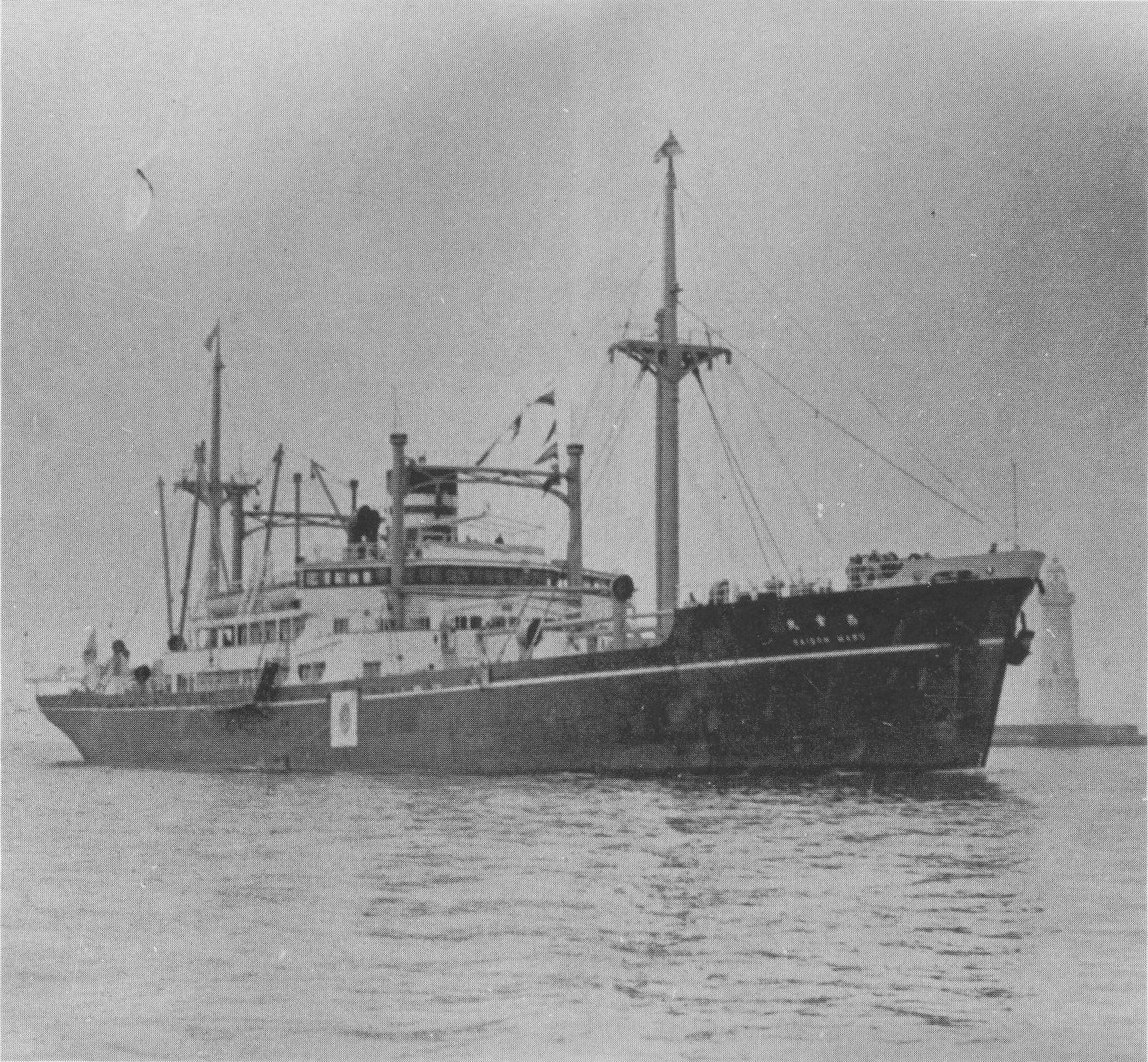 O.S.K. Line "Saigon Maru". Auxiliary cruisers of Japan.